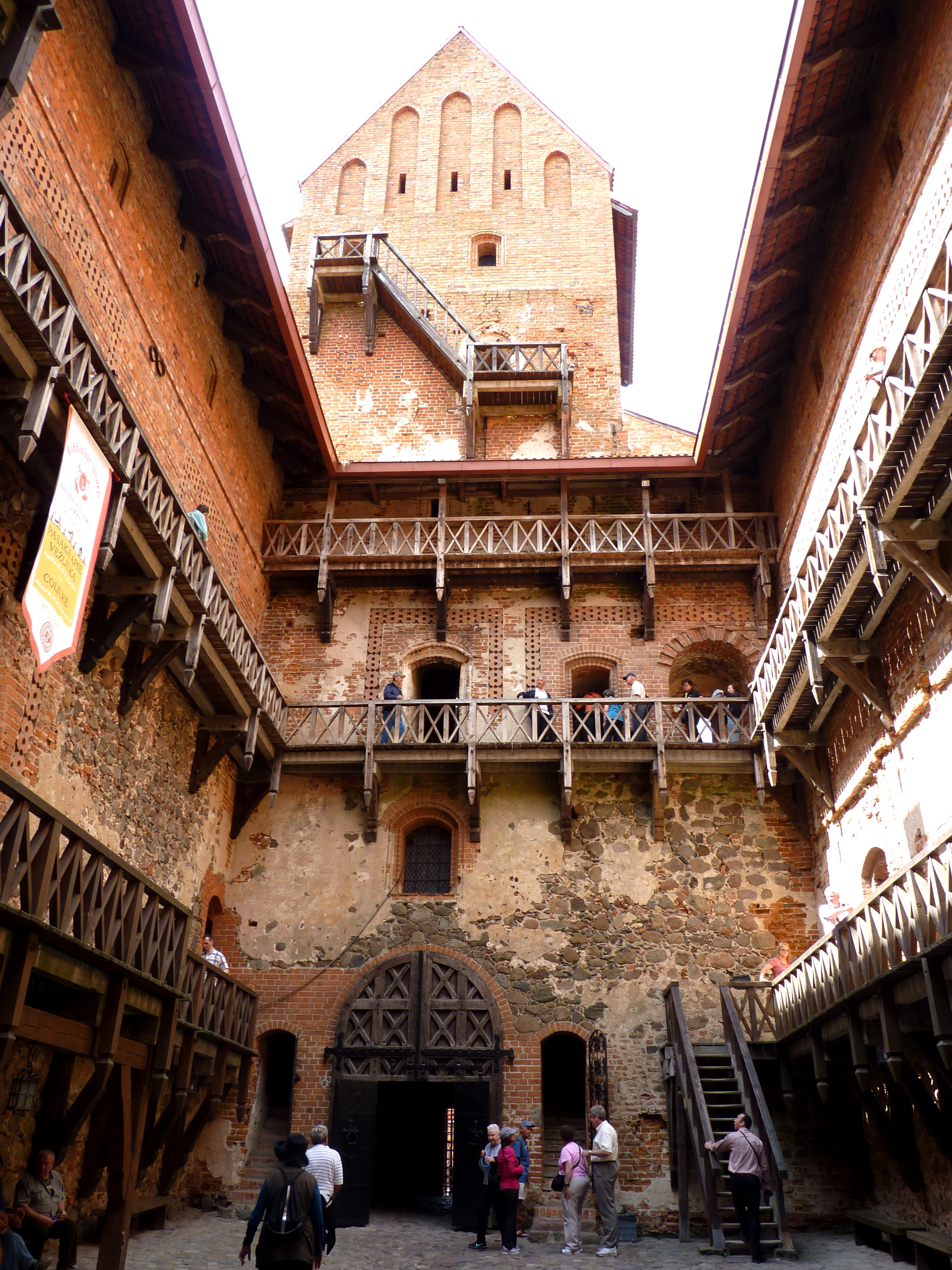 Trakai Island Castle (Trakų salos pilis) is an island castle located in Trakai, Lithuania on an island in Lake Galvė.